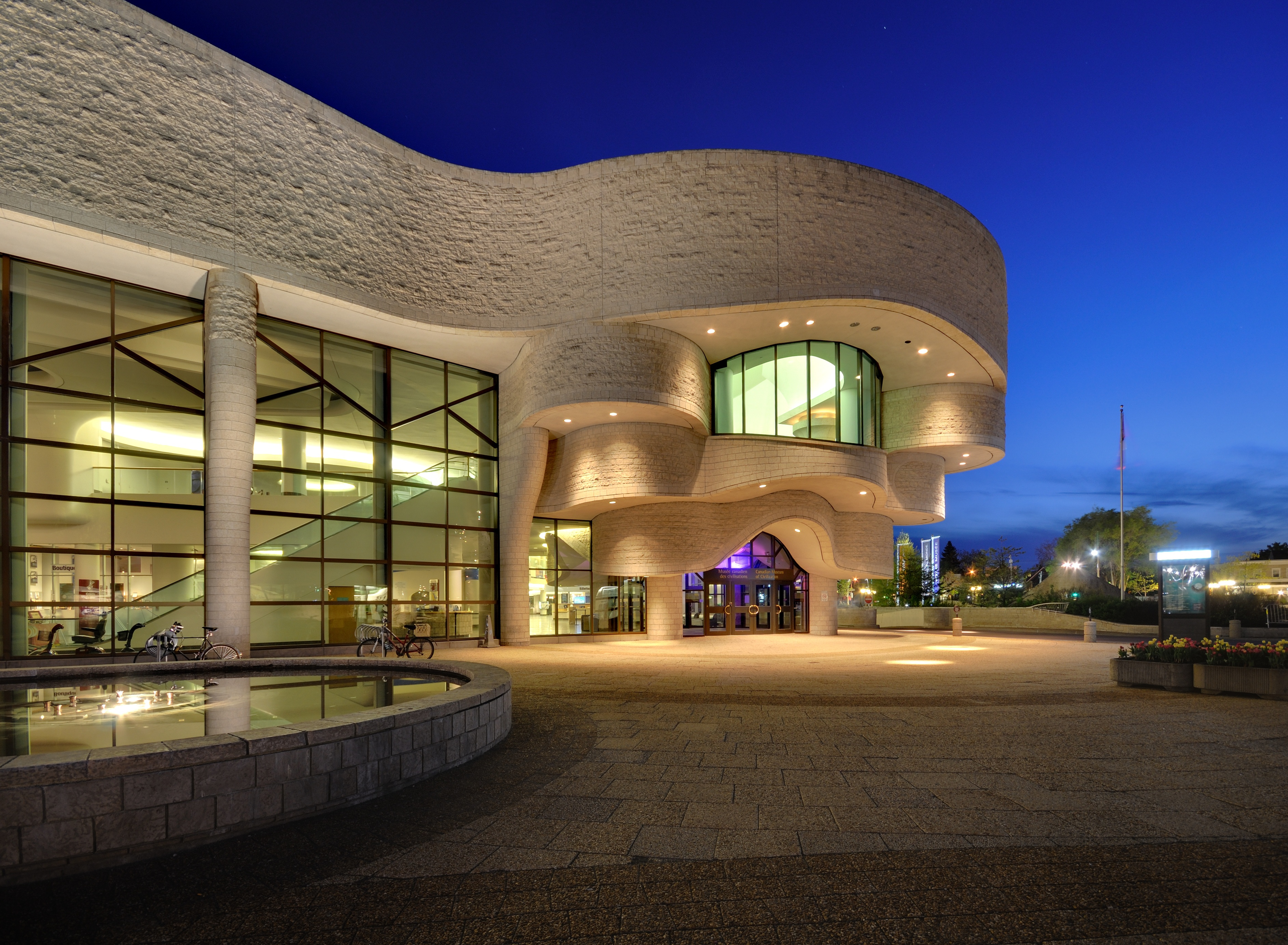 Public entrance of the Canadian Museum of Civilization, Gatineau